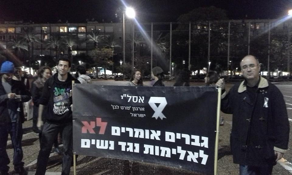 White Ribbon Campaign Israel called "Asly" at a protest in Kikar Rabin